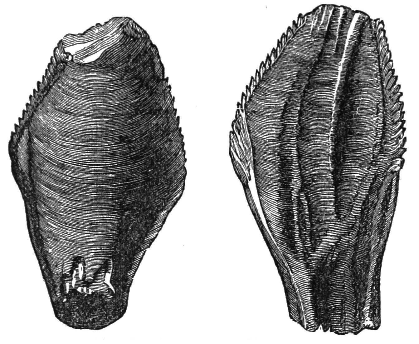 Tooth of iguanodon